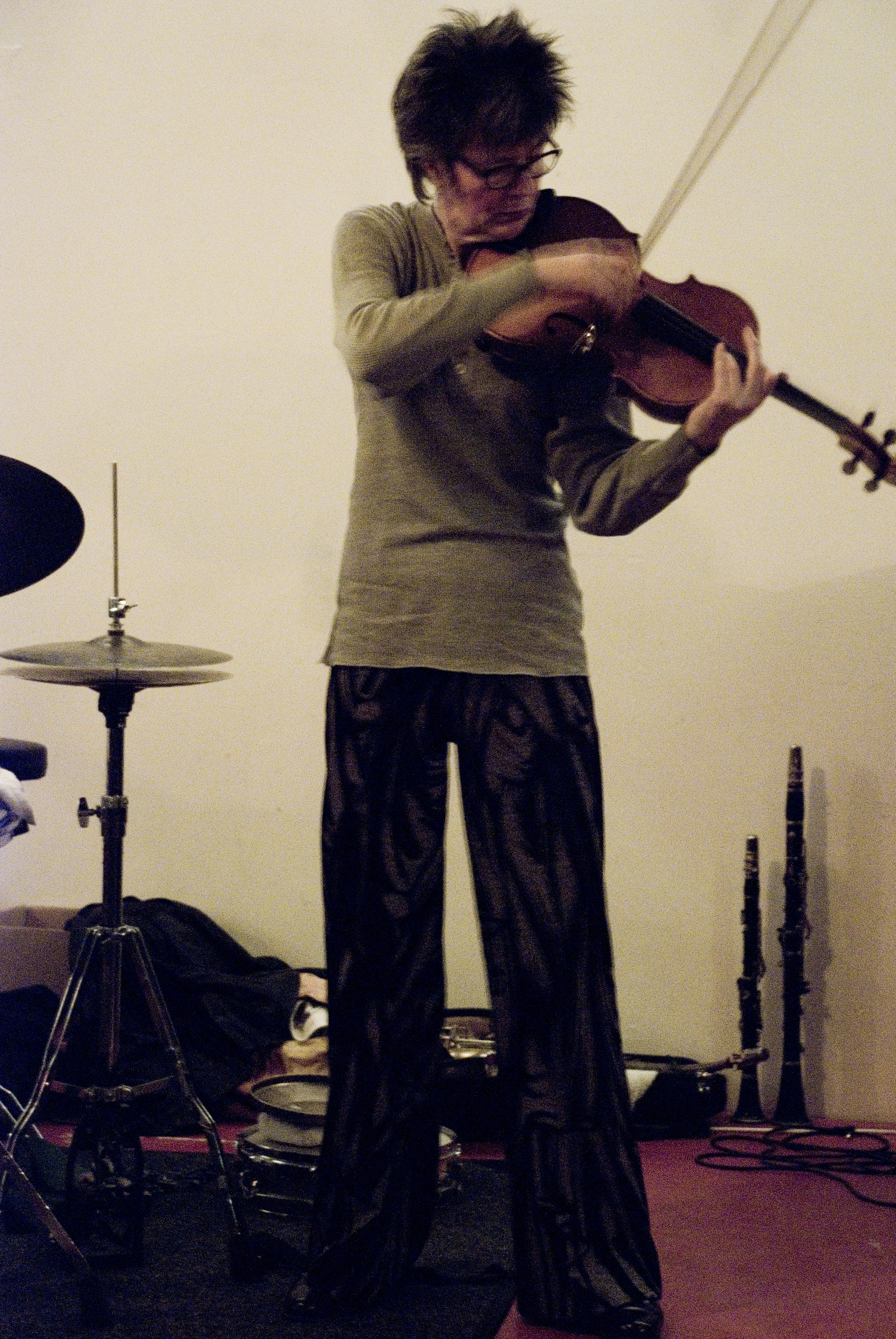 Ig Henneman. A Better Noise at the Star & Shadow.